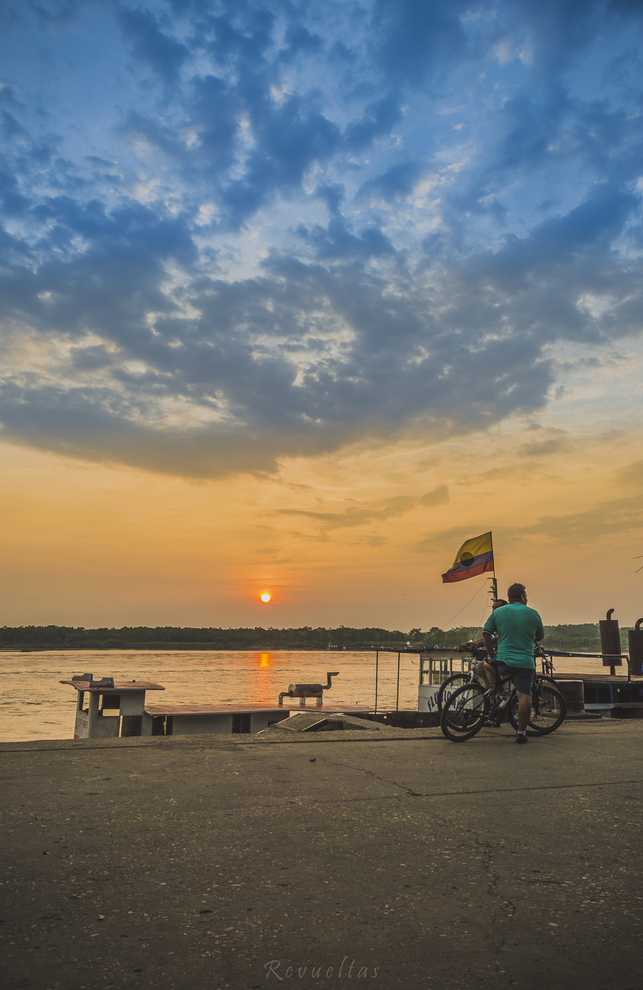 Es una costumbre en Barrancabermeja para algunos de sus habitantes ir hasta el muelle del mismo a observar el atardecer acompañado de sus familiares o amigos y compartir un rato agradable observando la majestuosidad del Río Magdalena y el imponente paisaje. Esta fotografía fue tomada en el municipio colombiano con código 68081.